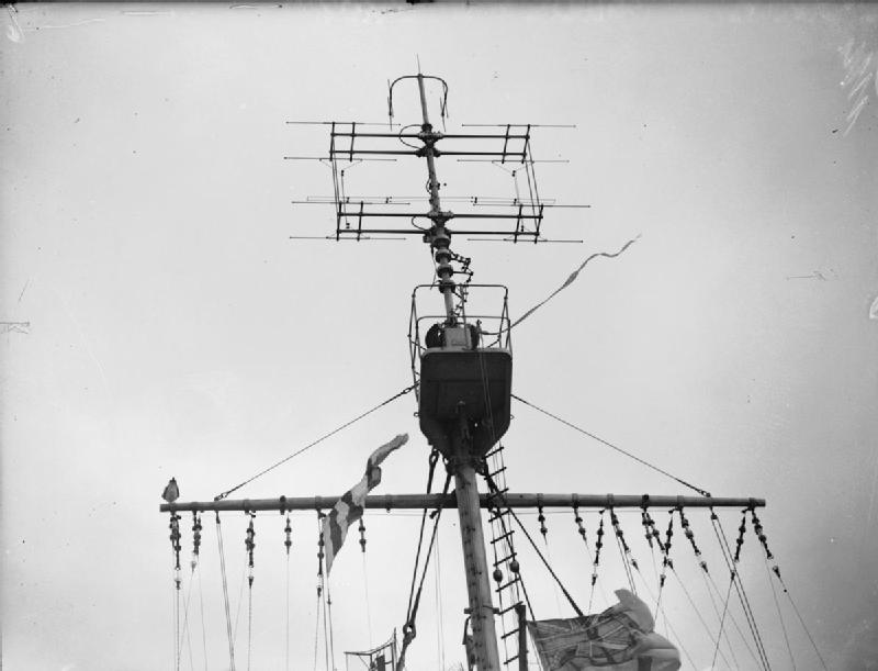 The Royal Navy during the Second World War 281 B Aerial on board HMS SWIFTSURE at Scapa Flow.